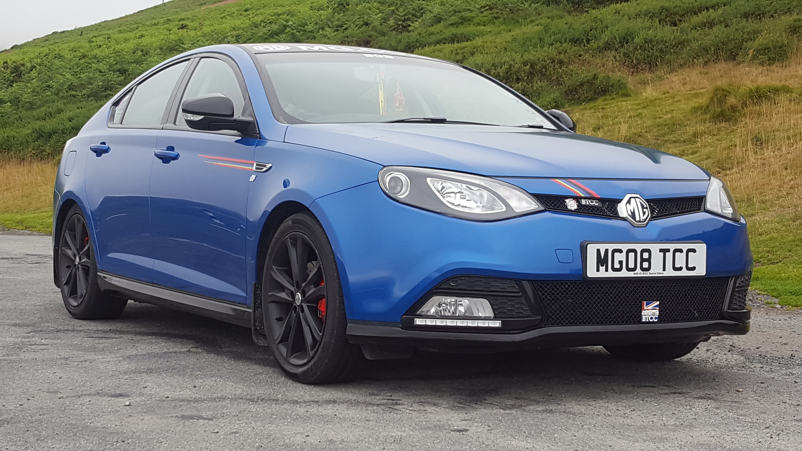 2014 MG6 SE BTCC Special Edition with private MG08TCC Registration. Photograph taken on the Horseshoe Pass near Llangollen, North Wales.